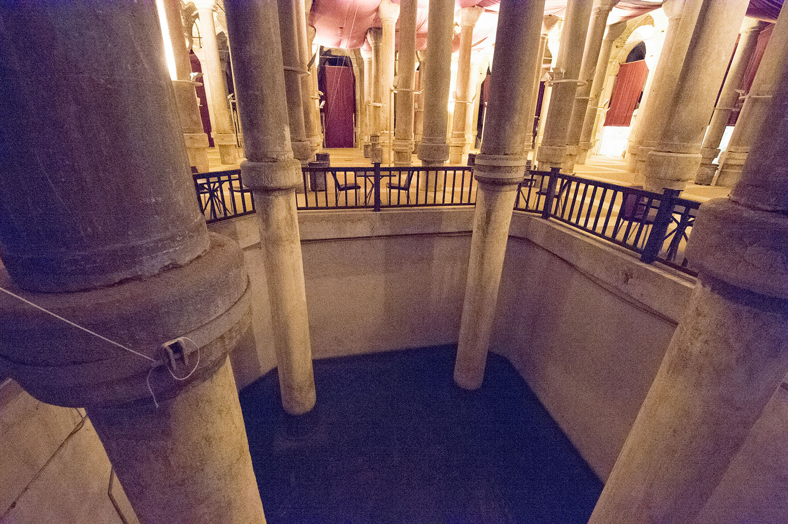 The excavated pond mentioned in the areticle, with four columns in the middle of the cistern showing columns, and thus the height of the cistern, were several meters more than in the restored situation.